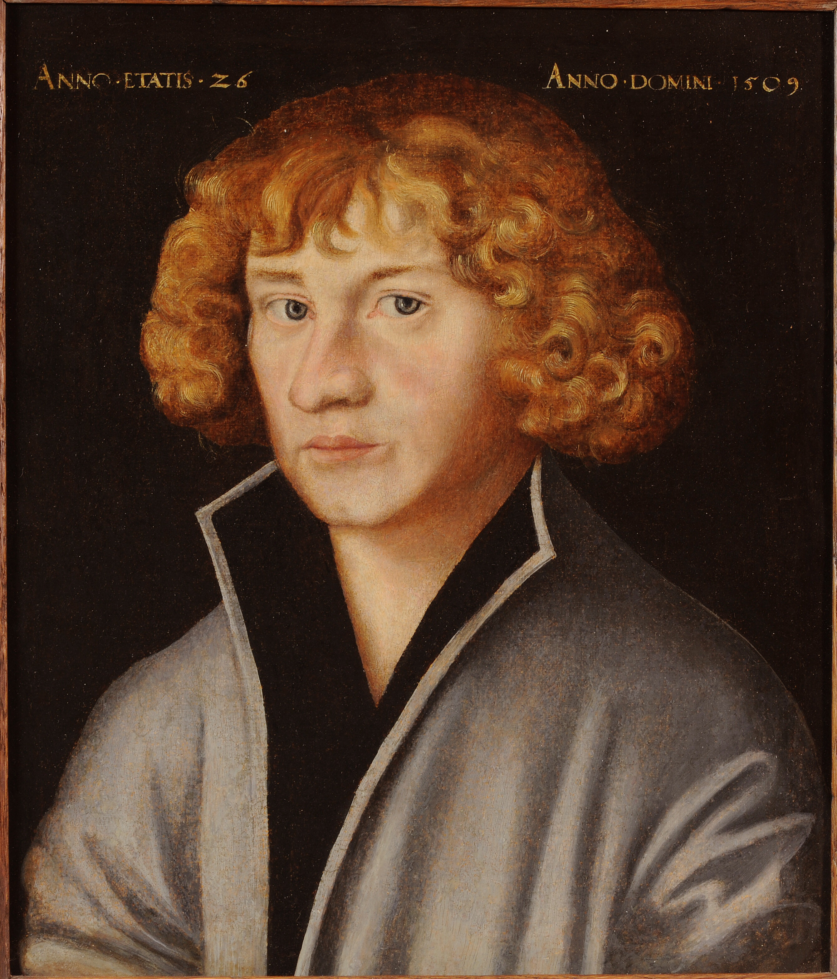 theologist and humanist Georg Burckhardt from Spalt near Nuremberg, called Spalatin (1484-1545), influential personality of the Saxon court